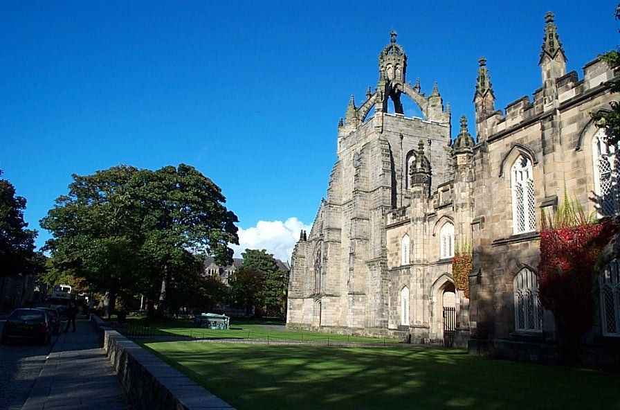 Old Kings building, University of Aberdeen